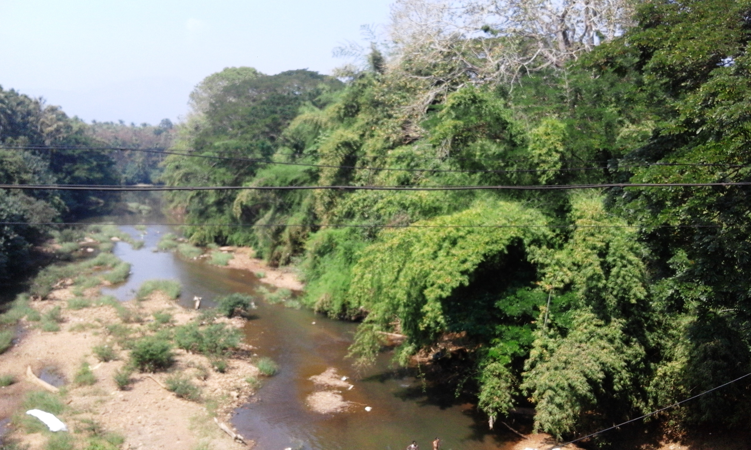 Vadapuram Bridge, Nilambur - Vazhikkadavu Road, Malappuram Dt, Kerala, India.